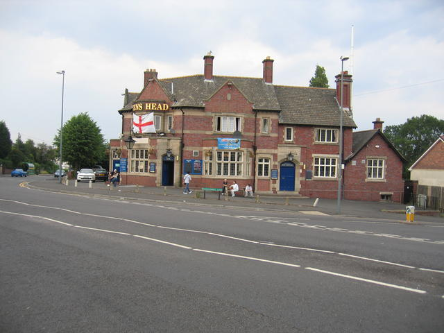 Queen's Head, Londonderry. The Queen's Head at the junction with Londonderry lane off to the right.